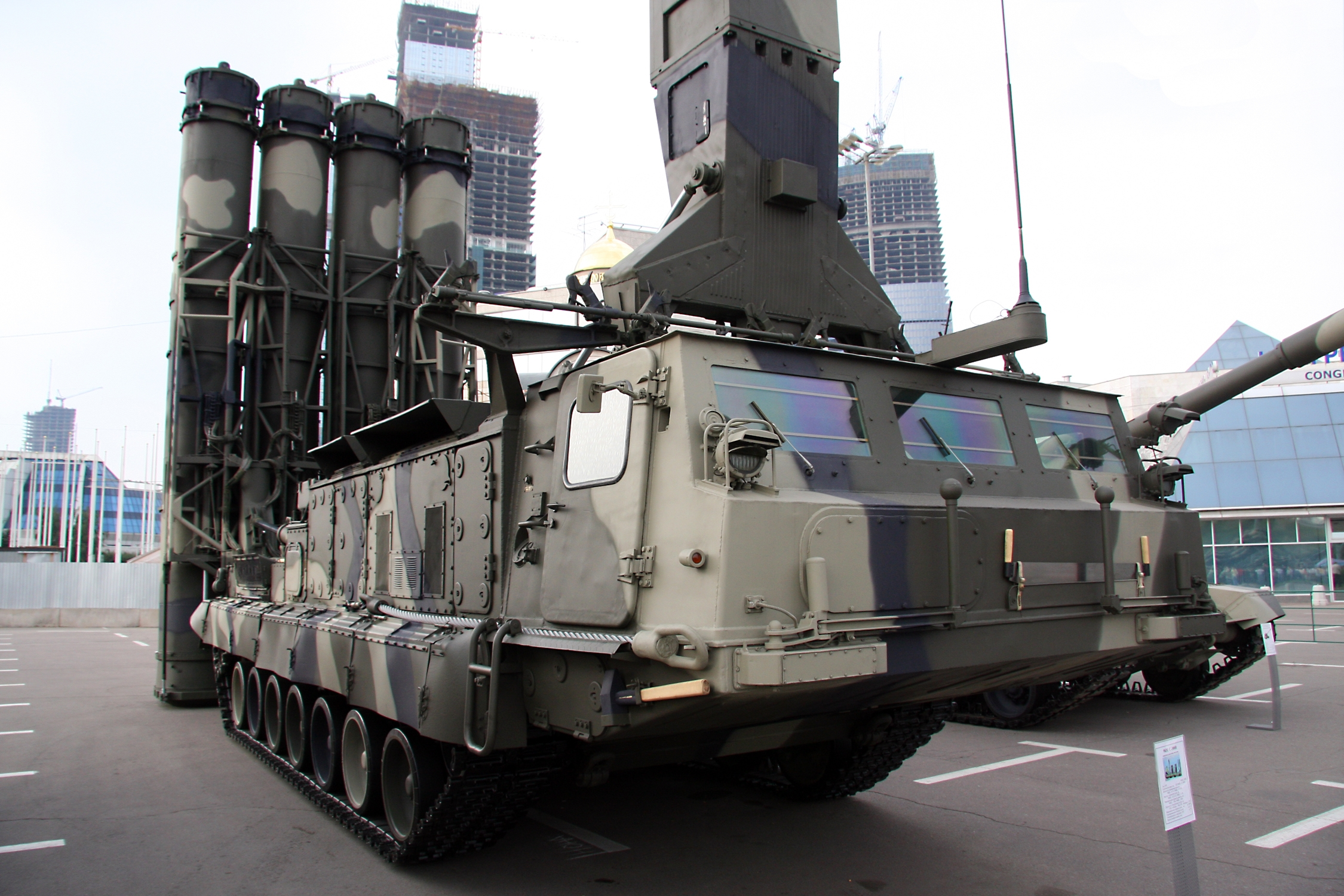 9K81 S-300V launcher at IDELF-2008.